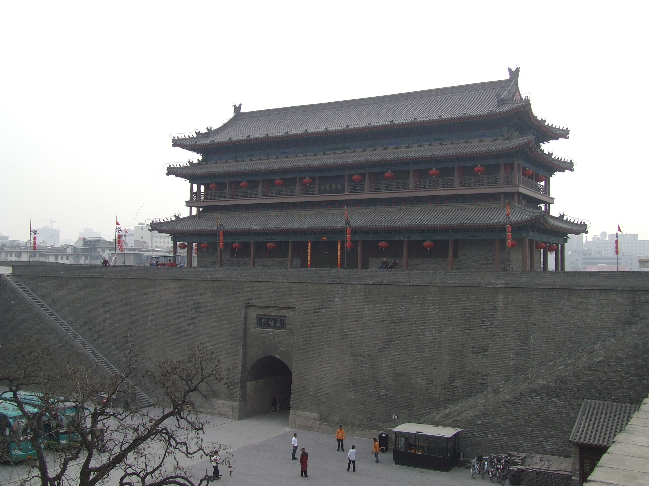 Courtyard of South Xian City Wall